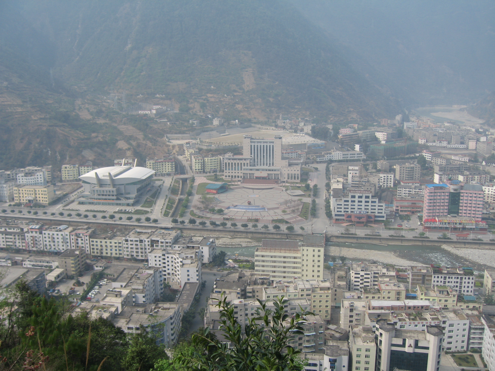 Central Shimian.